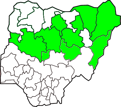 Boko Haram activity (States with terrorist activity atributed to Boko Haram) between 2010-2013. Using NG-Sharia.png map.